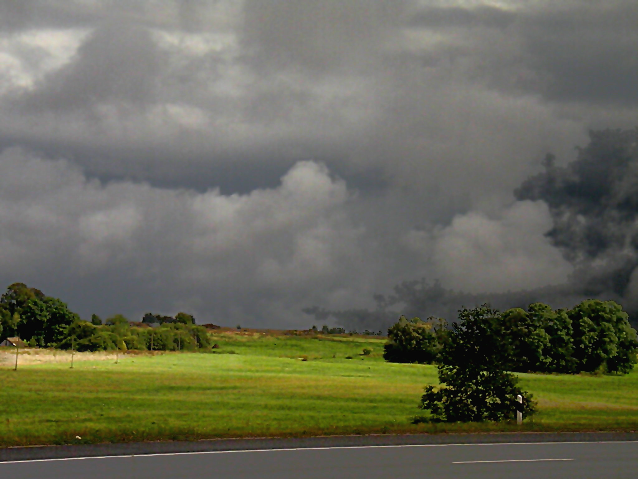 Thunderstorm in landscape